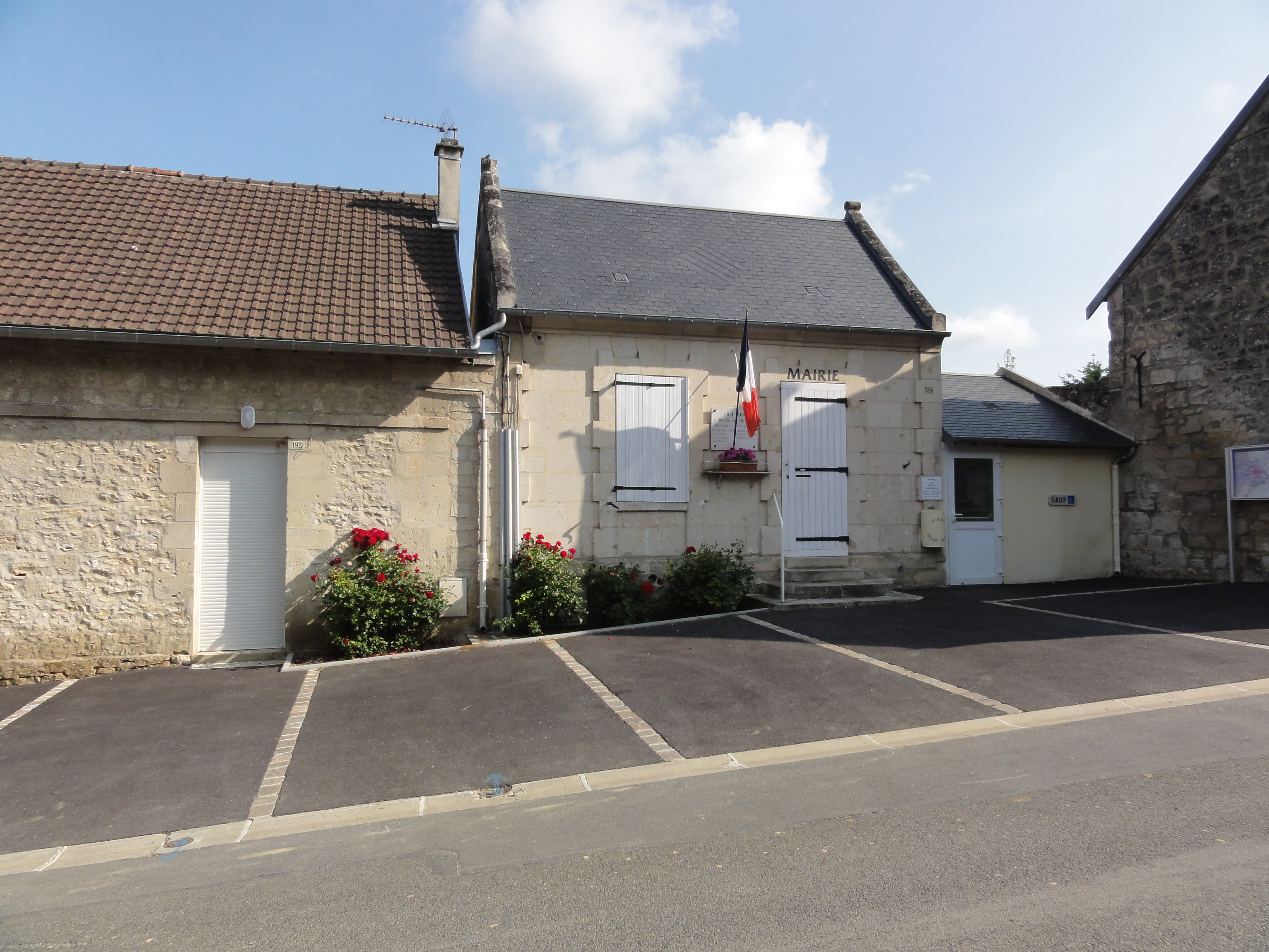 Ploisy (Aisne) mairie